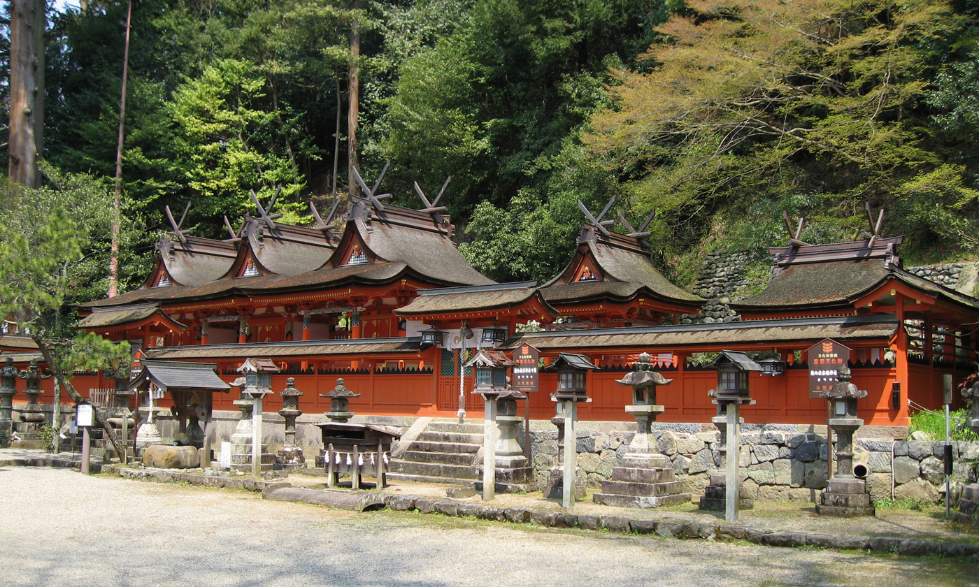 Udamikumari Shrine Kamigu The main shrine of Udamikumari Shrine Kamigu (left) is jointed 3 shinto shrines in the Kasuga style, built in 1320 (the end of the Kamakura period), had Japanese national treasure status. Massha Kasuga Shrine (center) in the Kasuga style, built in the middle of the Muromachi period, had Japanese important cultural property status. Massha Munakata Shrine (right) in the Nagare style, built in the end of the Muromachi period, had Japanese important cultural property status. 宇太水分神社 上宮 本殿3棟（左）春日造 1320年（元応2年）鎌倉時代後期 国宝 末社春日神社本殿（中央）春日造 室町時代中期 重要文化財 末社宗像神社本殿（右）流造 室町時代後期 重要文化財 奈良県宇陀市菟田野区古市場で撮影